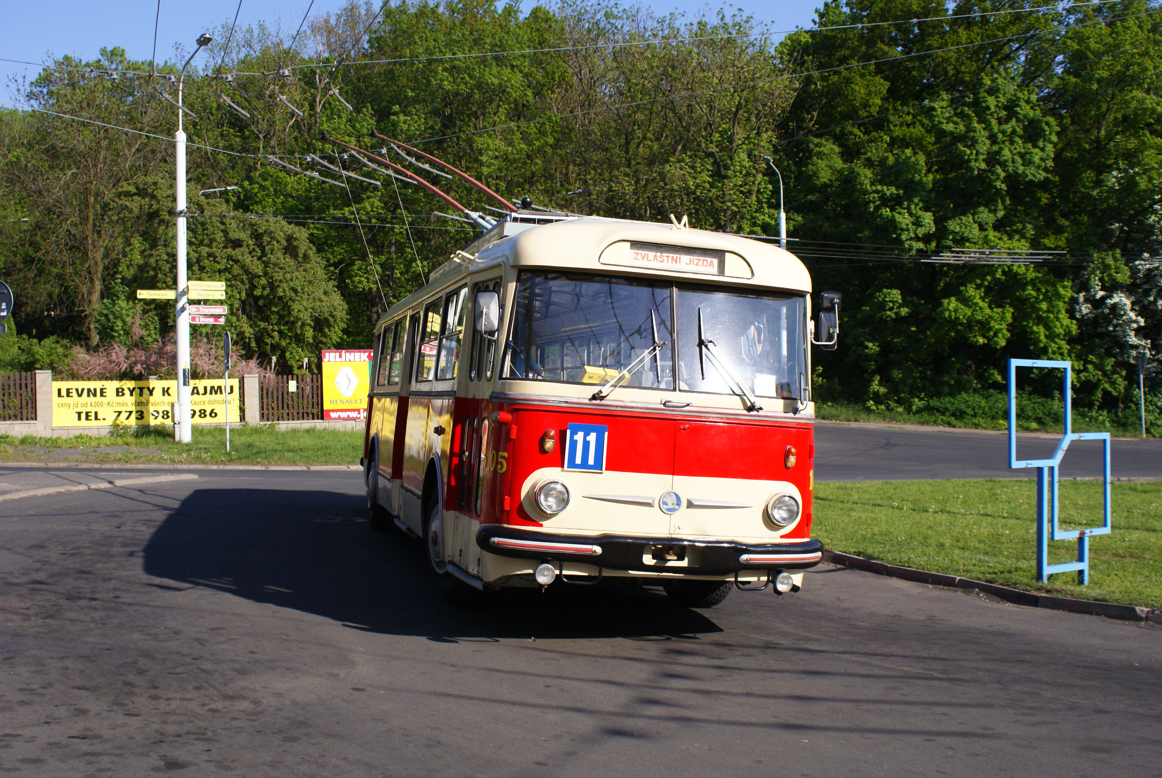 Historical Škoda 9Tr trolleybus in Teplice, Czech Republic